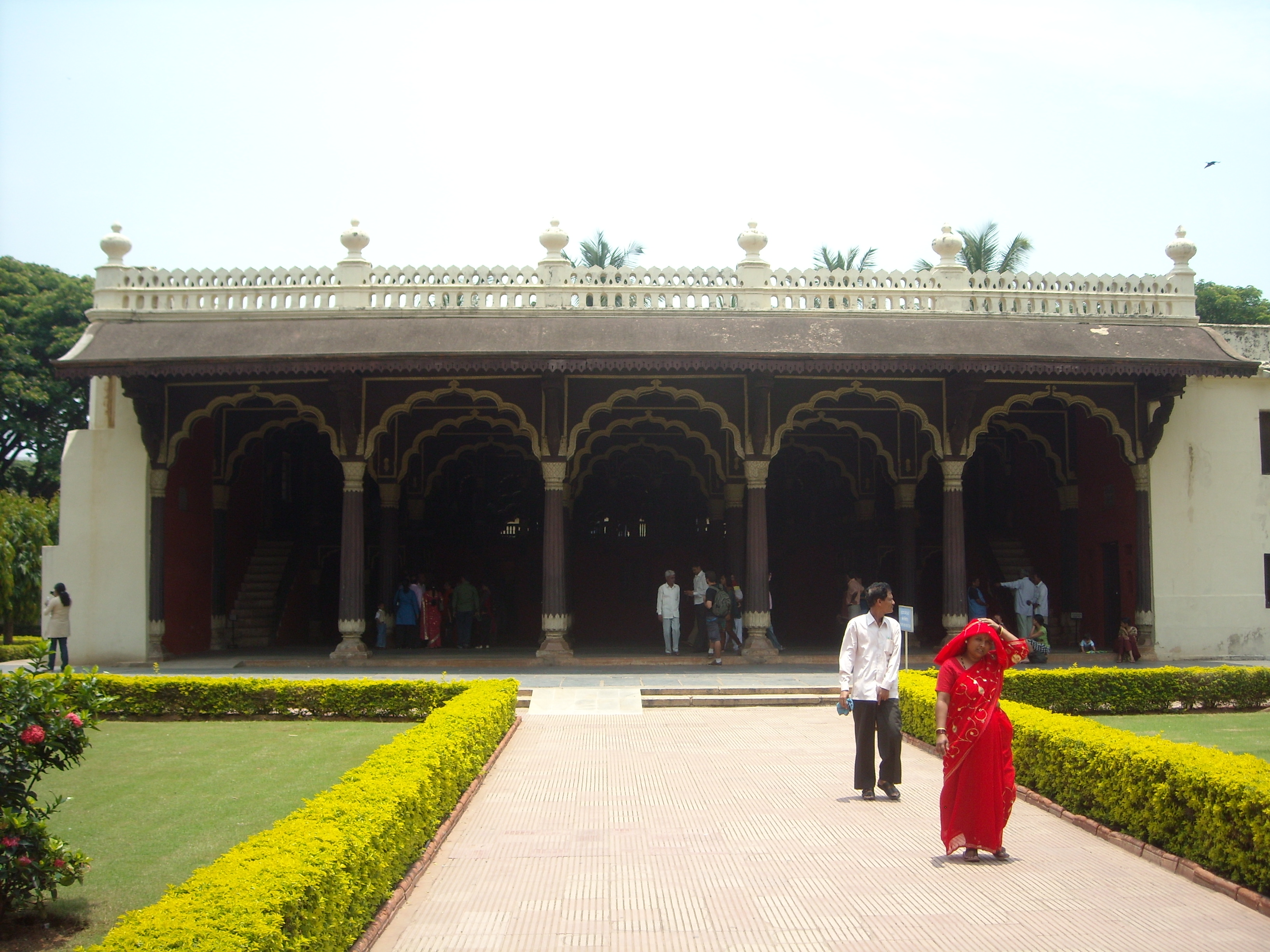 Tipu sultans palace in Bengaluru